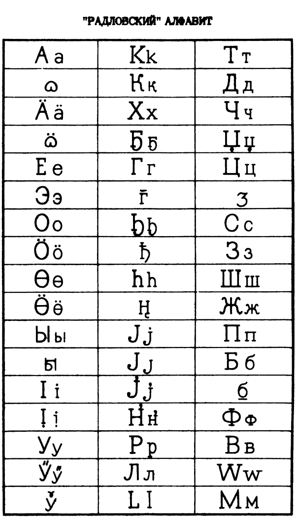 The Turkic alphabet used by V. V. Radlov (1890s–1910s)